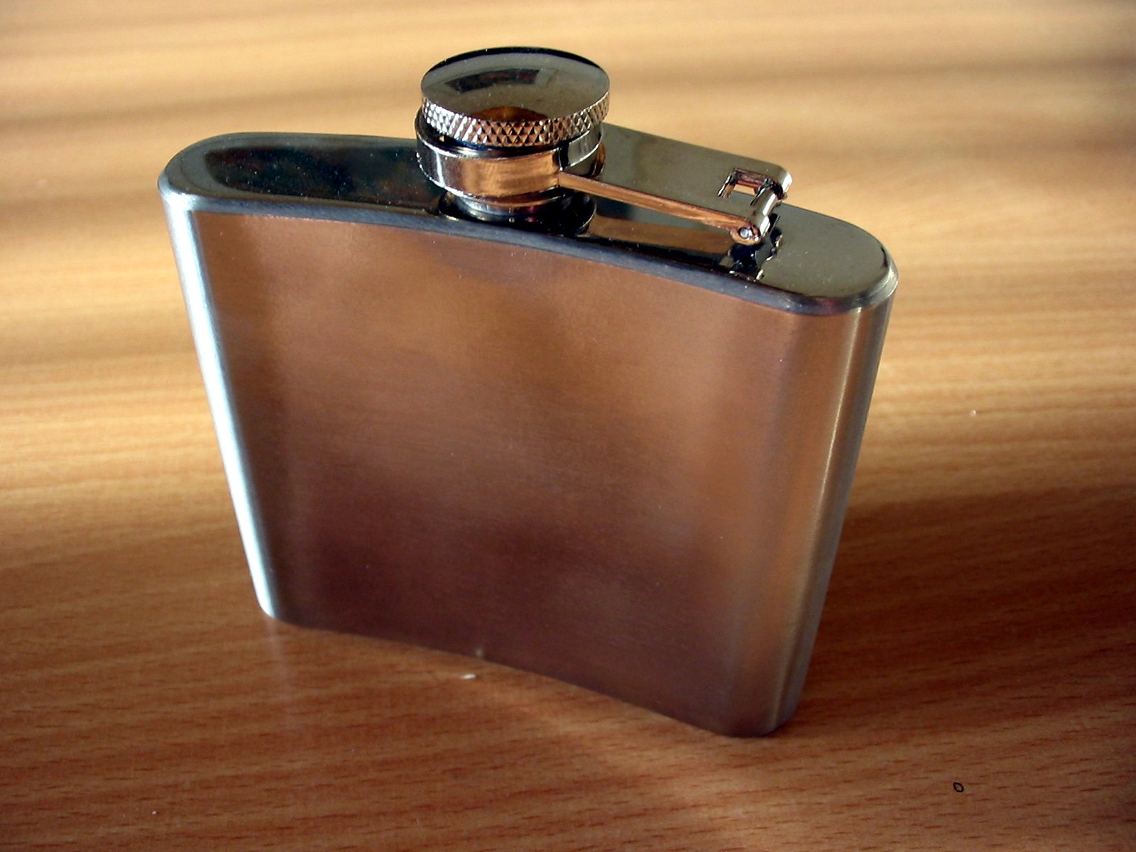 hip flask